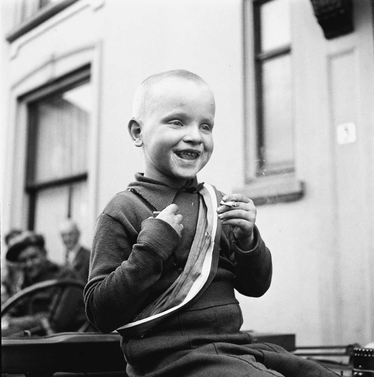 Nationaal Archief Beschrijving: Kleuter viert de bevrijding met een sigaret. Datum:april 1945 Vervaardiger: Anefo / Poll, Willem van de Bestanddeelnummer:900-2530 URL: Voor meer informatie over het Nationaal Archief: Voor meer foto's uit deze en andere collecties, bezoek onze Beeldbank:, U kunt ons helpen onze kennis van de fotocollecties te verrijken door tags en commentaren toe te voegen. Herkent u mensen of locaties of heeft u een bijzonder verhaal te vertellen bij één van de foto's, laat dan een reactie achter (als u ingelogd bent bij Flickr) of stuur een mailtje naar